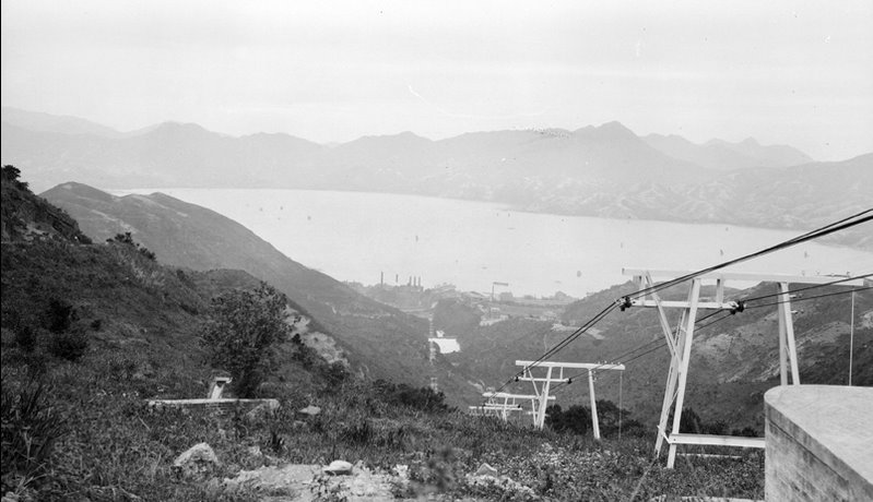 View from Mount Parker (1919–1920)